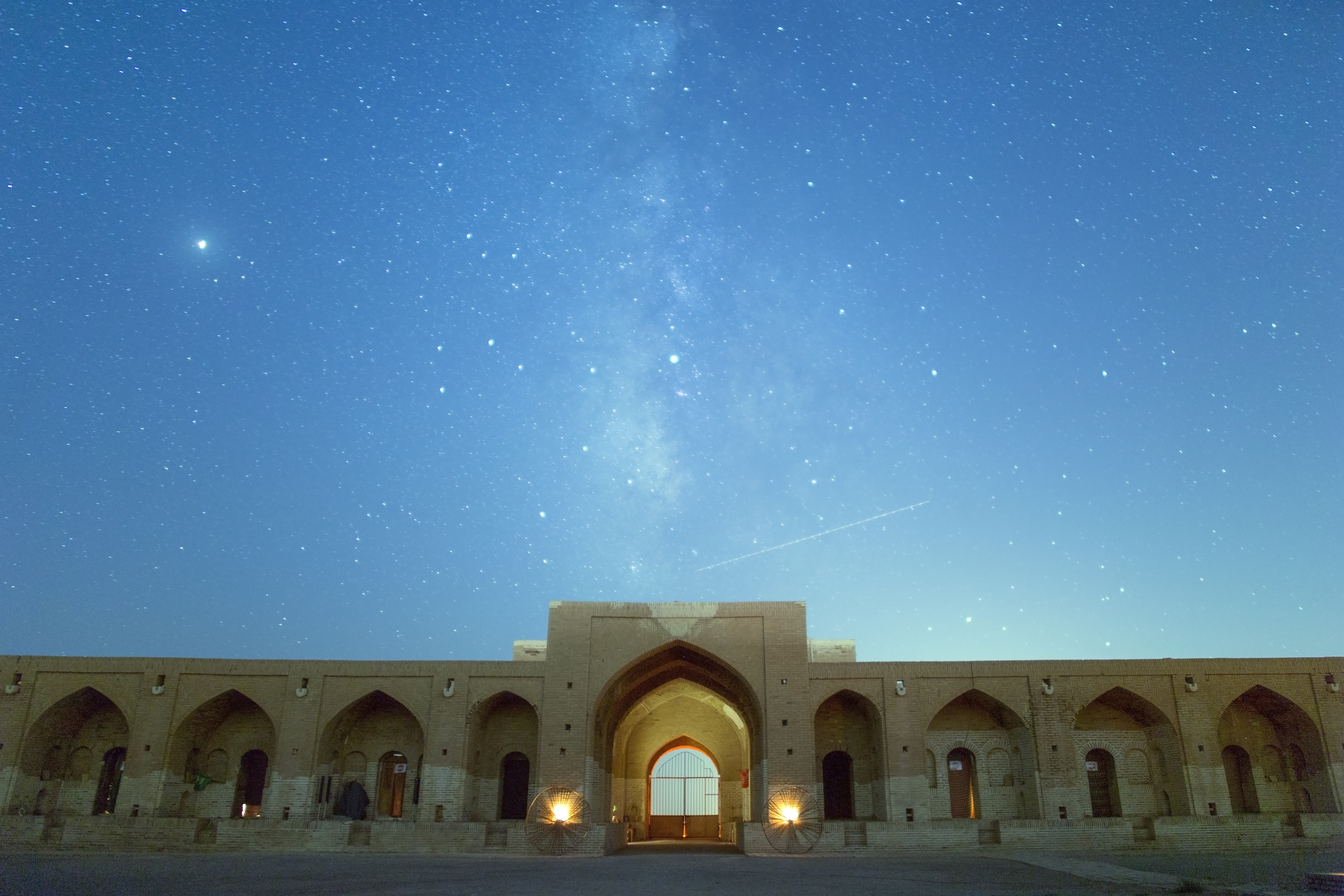 Deir-e Gachin Caravansarai is one of the greatest caravansarais of Iran which is located in the center of Kavir National Park. Its unique qualities is the reason it is called “Mother of Iranian Caravansarais”. It is located in the Central District of Qom County, 80 kilometers north-east of Qom (60 kilometers into Garmsar Freeway) and 35 kilometers south-west of Varamin. (Photo by: Mostafa Meraji, wiki loves monuments 2018)